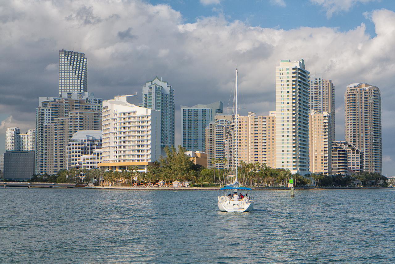 Miami Afternoon